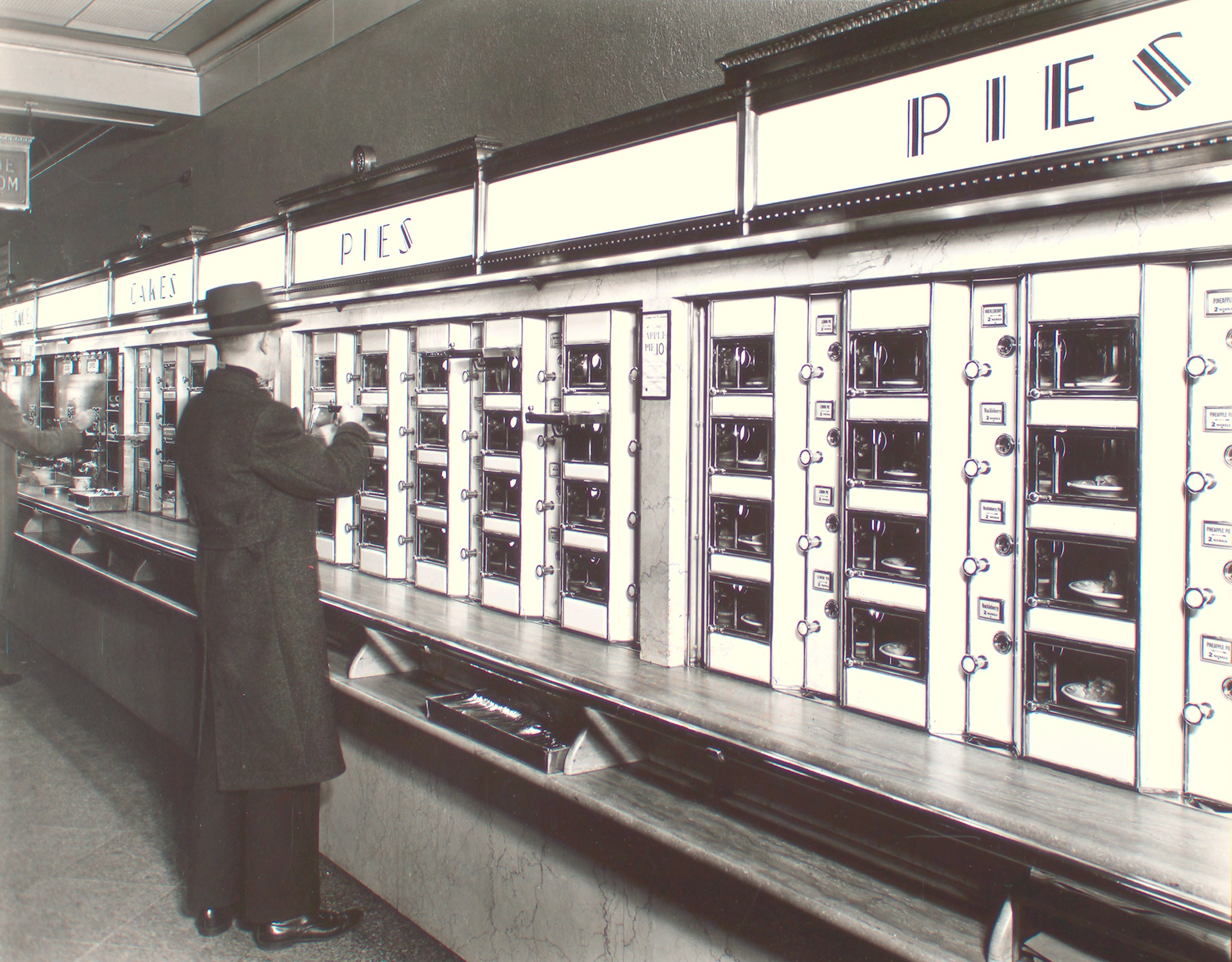 Code: III.C.1. Man takes pie out of Automat, stone counters and walls below metal and glass display. Citation/Reference: CNY# 69